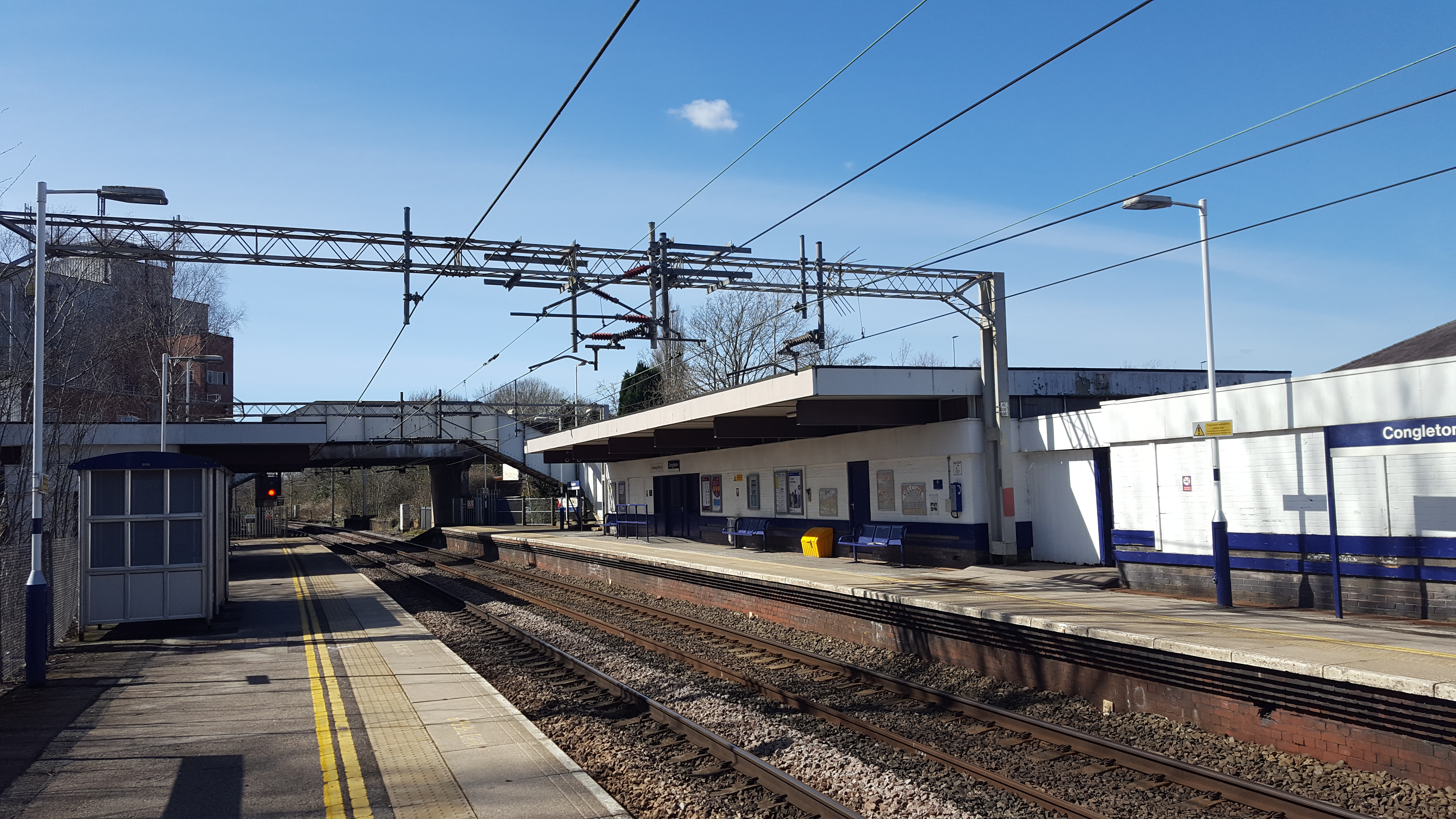 Looking south towards Stoke on Trent and London. 5 April 2018